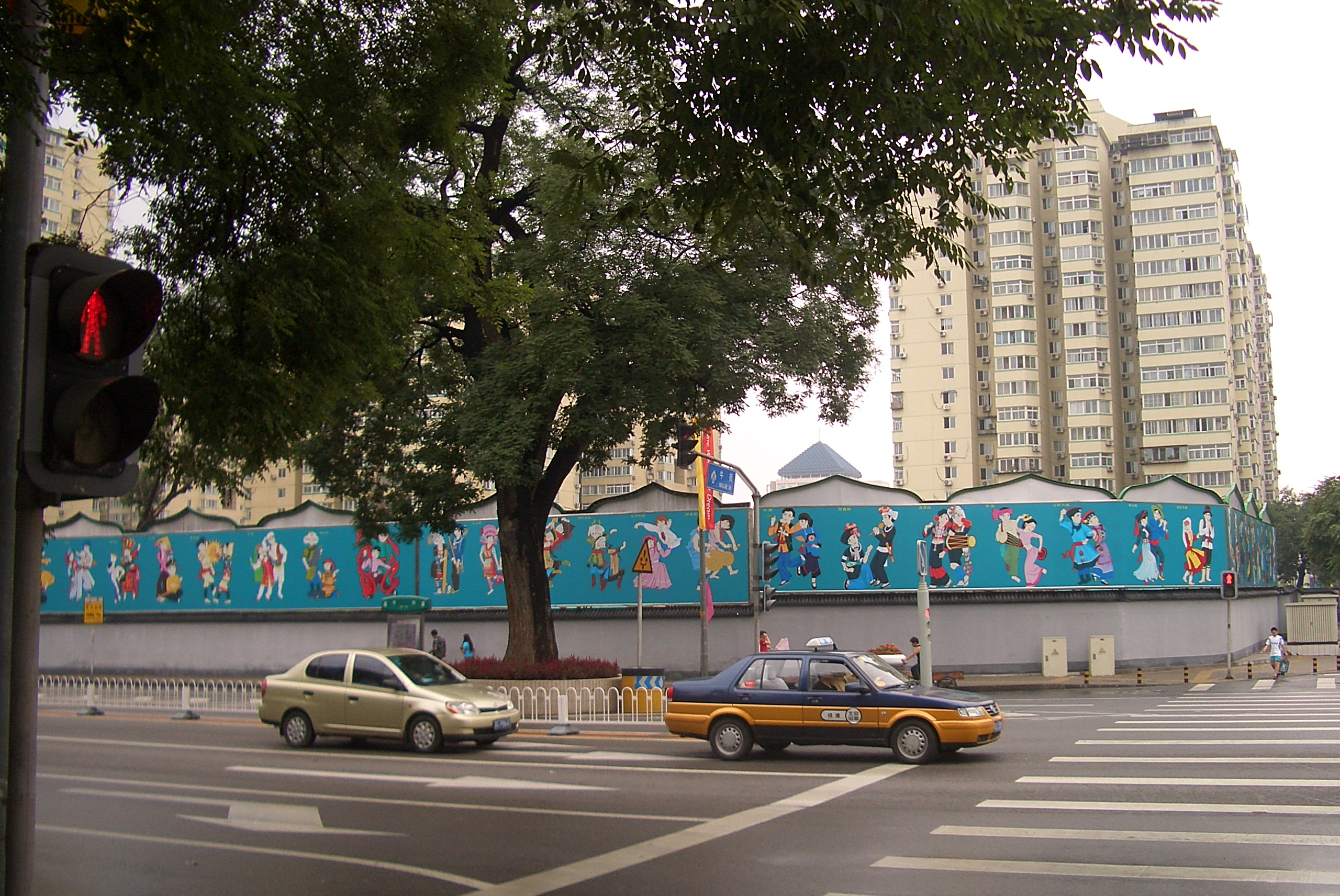 In Beijing Niu Jie (Cow Street), across the street from the Niujie Mosque. An entire block - probably, a construction site - is fenced with a capital wall, decorated with a block-long poster depicting all 56 "recognized" ethnic groups of China (including Han) forming "The great united family of peoples" (民族团结大家庭). The figures are arranged in Pinyin alphabetic order from right to left.